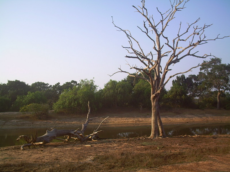 Lake at Yala National Park